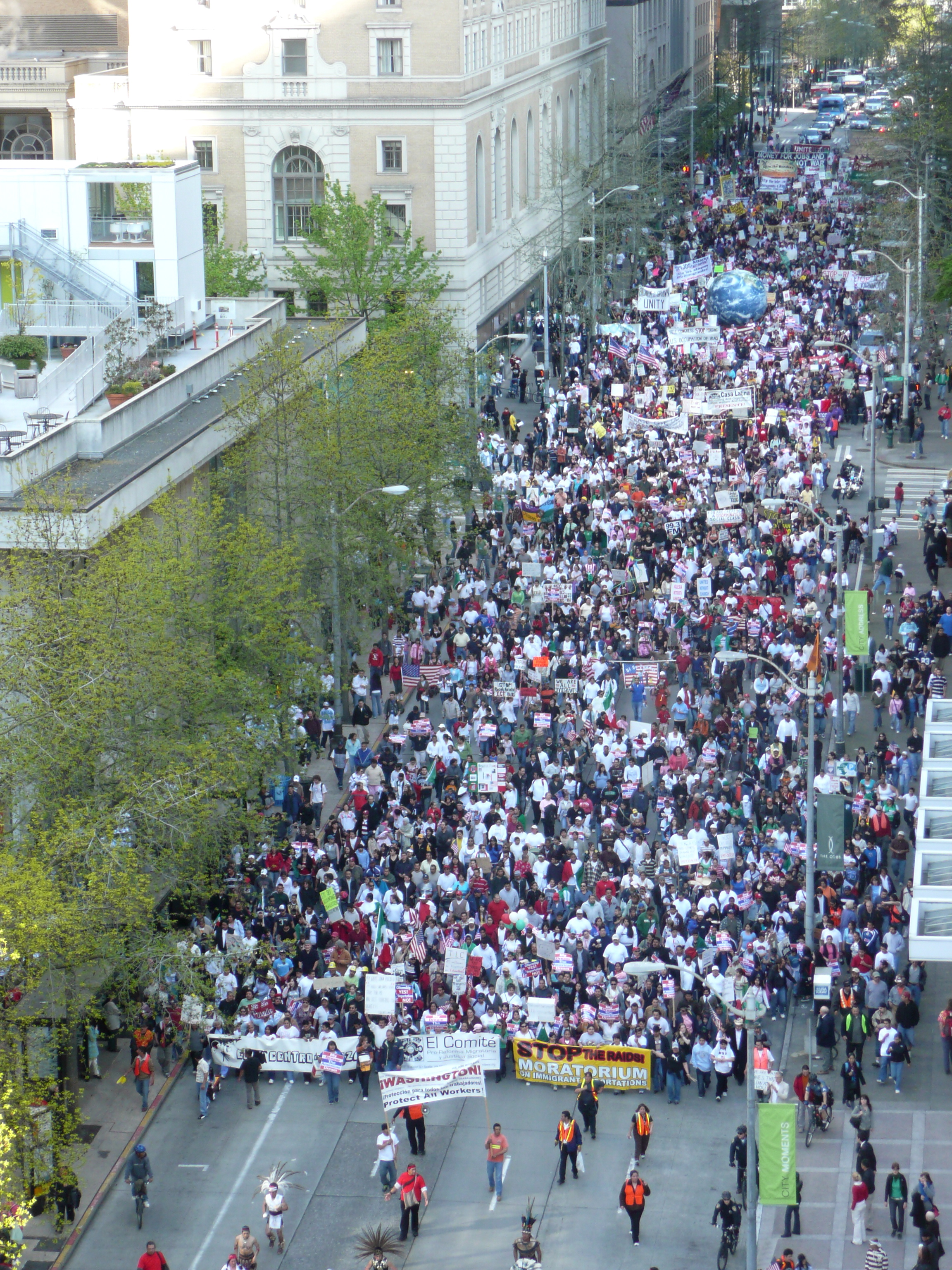 Several thousand people marched down Fourth Avenue in downtown Seattle on Thursday, May 1, 2008. Marchers represented a range of labor and environmental causes, with many advocating for immigrant rights.